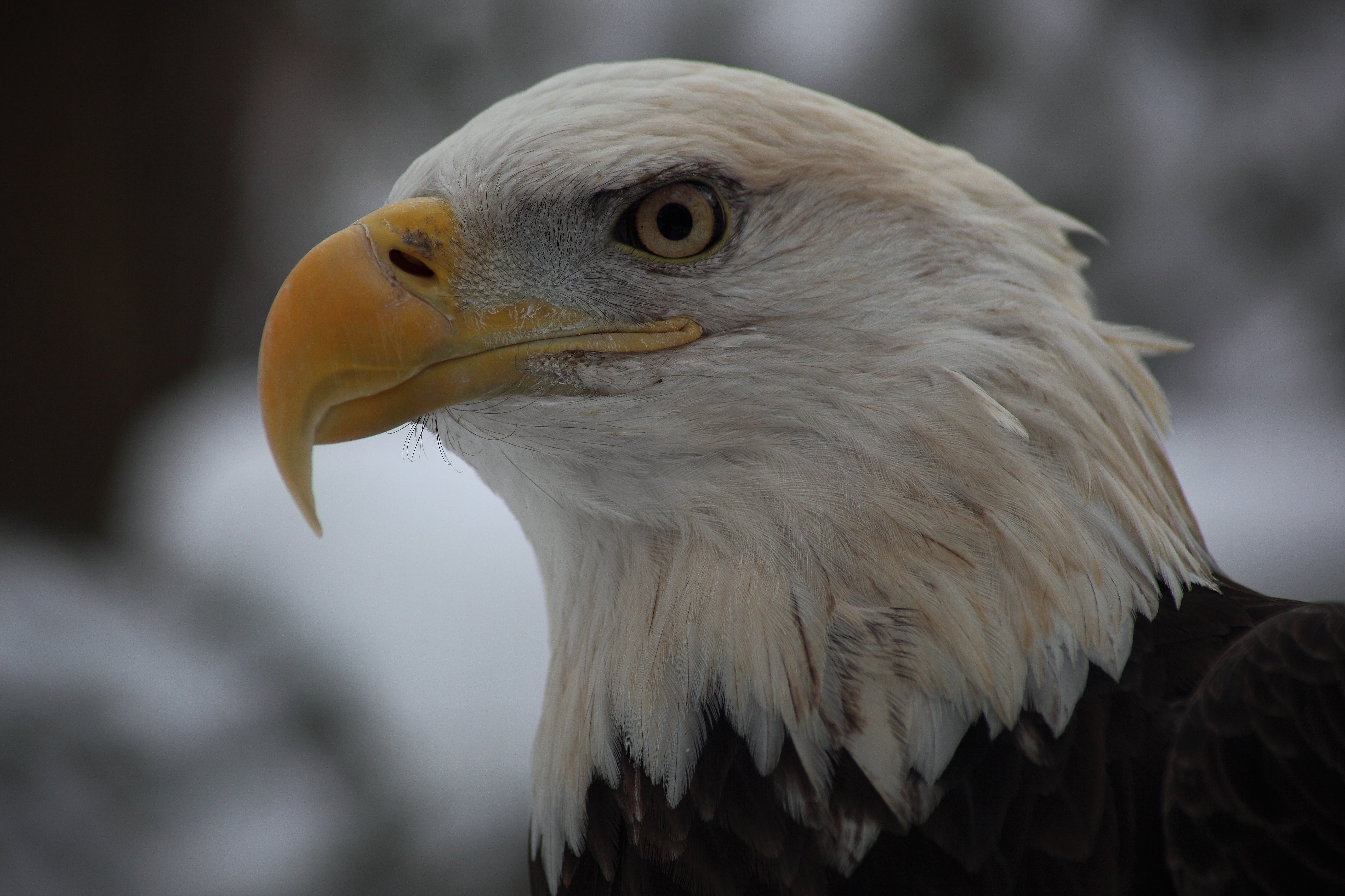 Bald Eagle Face